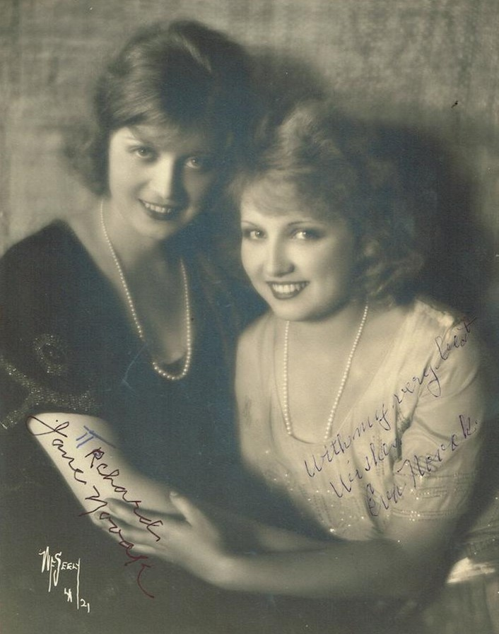 american actresses Jane (left) & Eva Novak - publicity still (cropped)